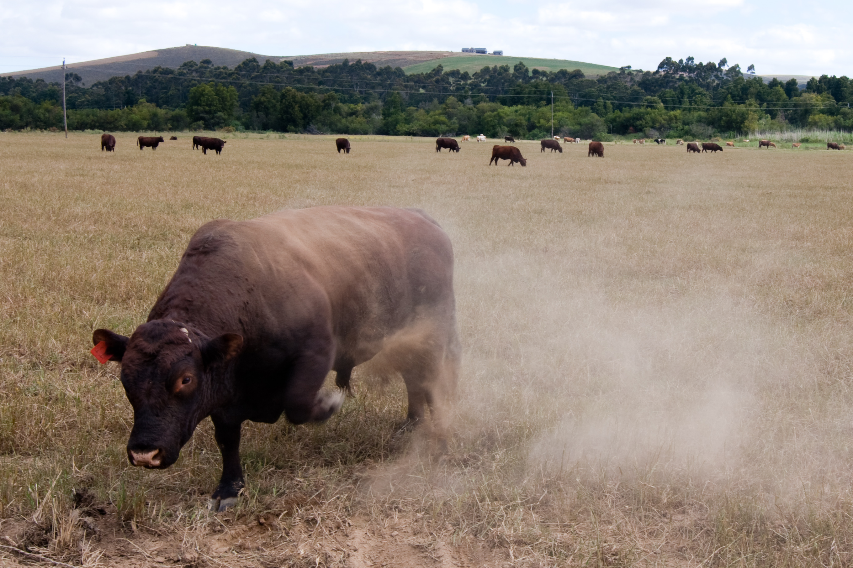 A bull in a pasture